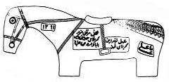 Gravestone in the form of horse from Kalbajar with Arabic alphabet